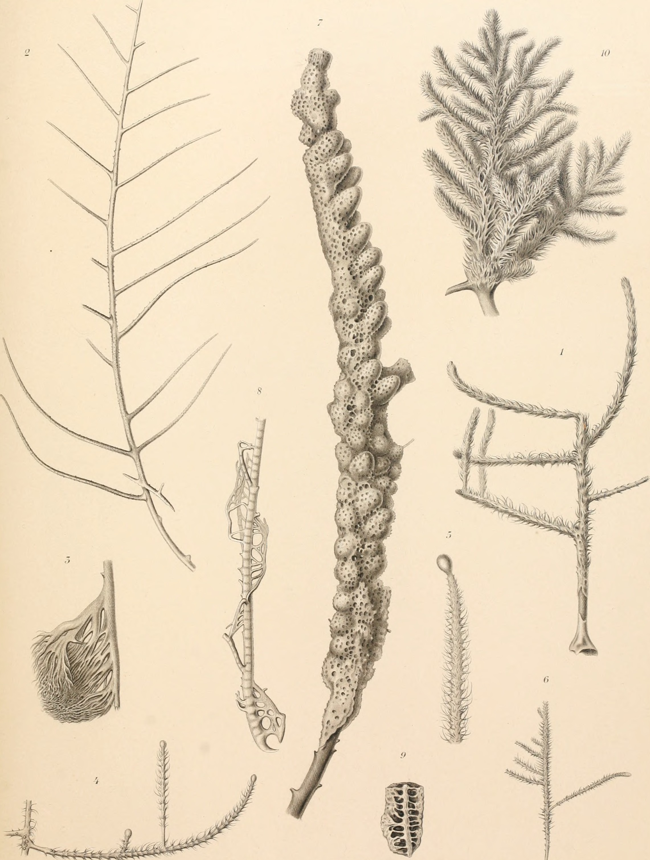 Title: The Danish Ingolf-Expedition Year: 1905 (1900s) Authors: Ingolf (Cruiser); Danish Ingolf-Expedition (1895-1896) Subjects: Scientific expeditions; Arctic Ocean Publisher: Copenhagen : H. Hagerup Text Appearing Before Image: Inqolf I'-.i/ii ditionen I 7 _' Lundbeck. Porifera II Tub.III. Text Appearing After Image: km